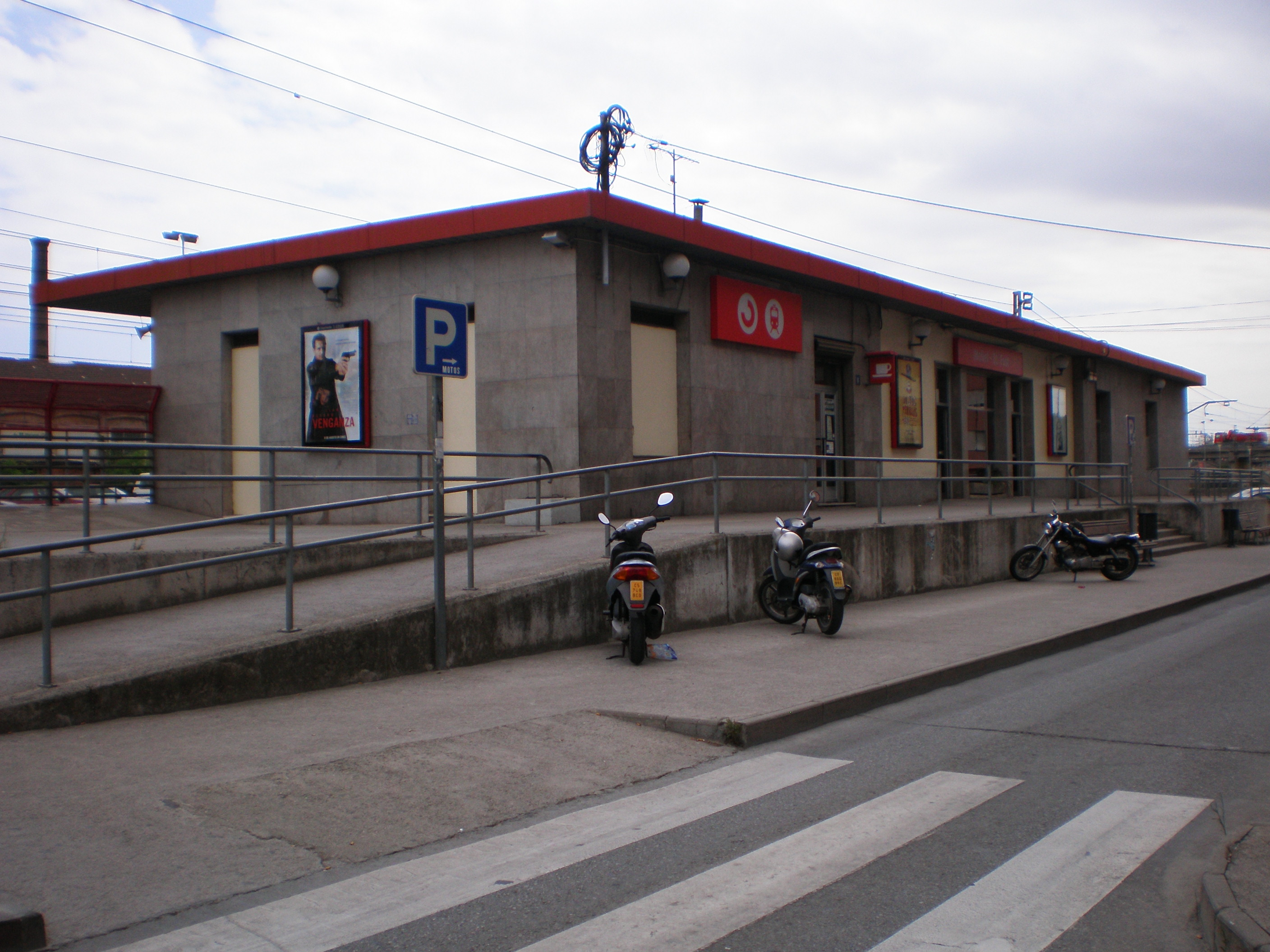 Mollet Sant Fost railway station (Catalonia)